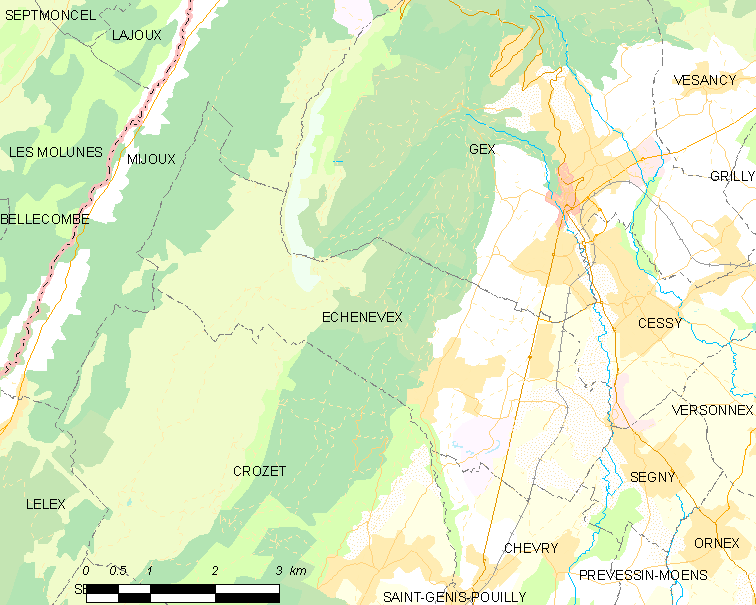 Map of French commune: Échenevex Map commune FR insee code 01153.png